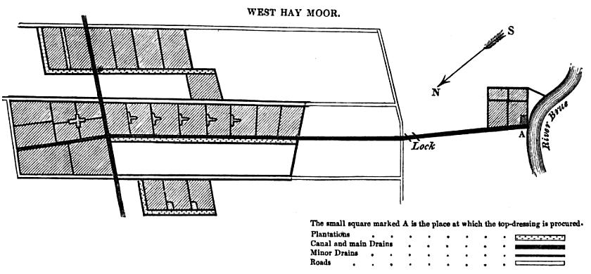 Diagram of Galton's Canal, showing parts of Westhay Moor that were improved for agricultural purposes, from an article by Erasmus Galton published in 1845 in the Journal of the Royal Agricultural Society of England, Volume 6